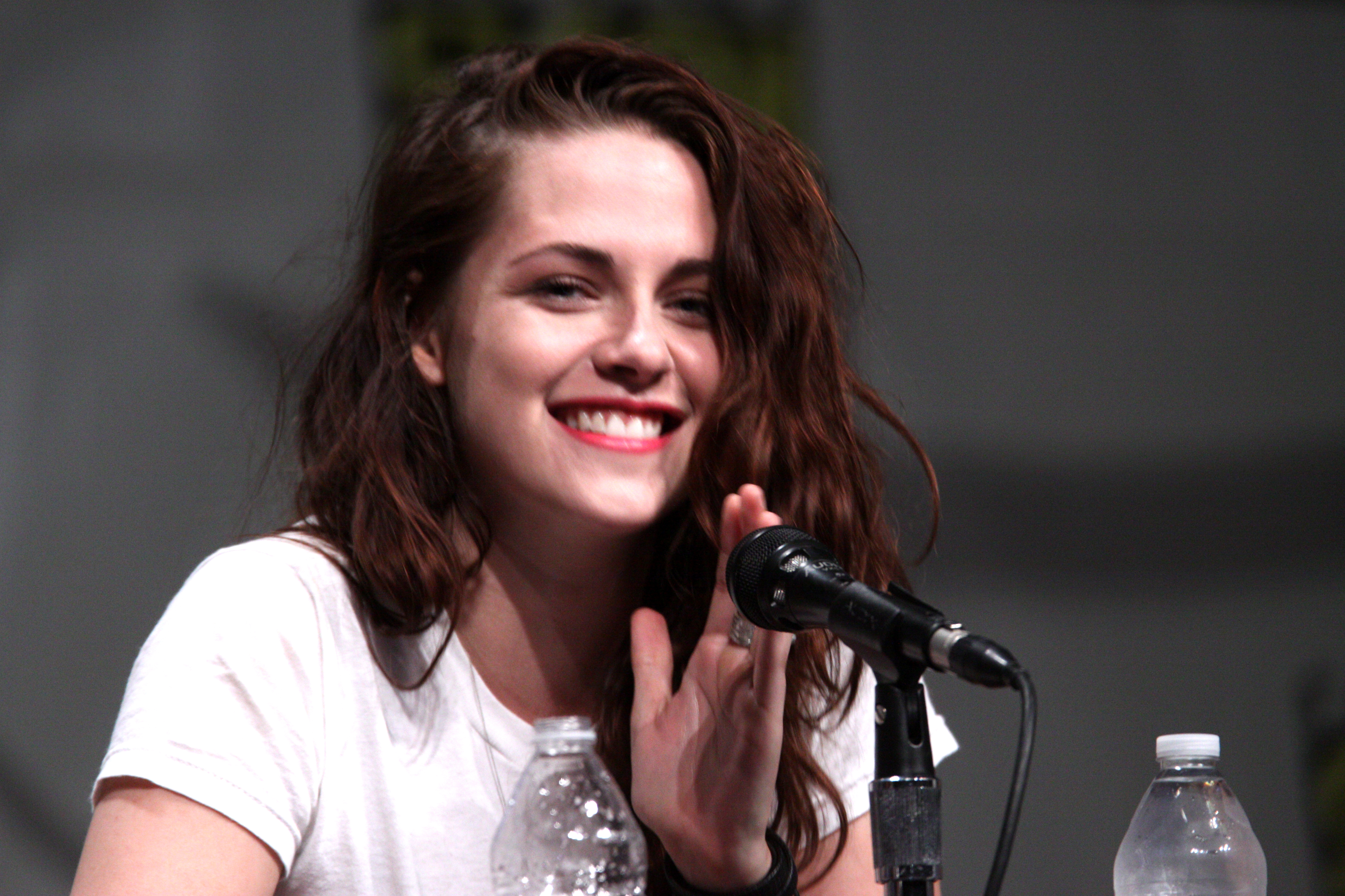 Kristen Stewart speaking at the 2012 San Diego Comic-Con International in San Diego, California.